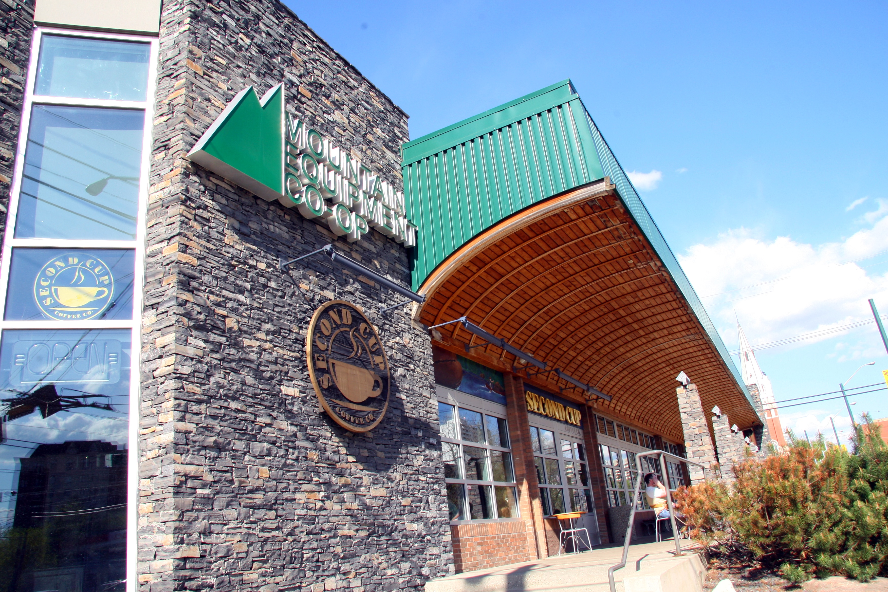 Mountain Euqipment Co-op store in Edmonton, Alberta, Canada.Mountain Equipment Co-op